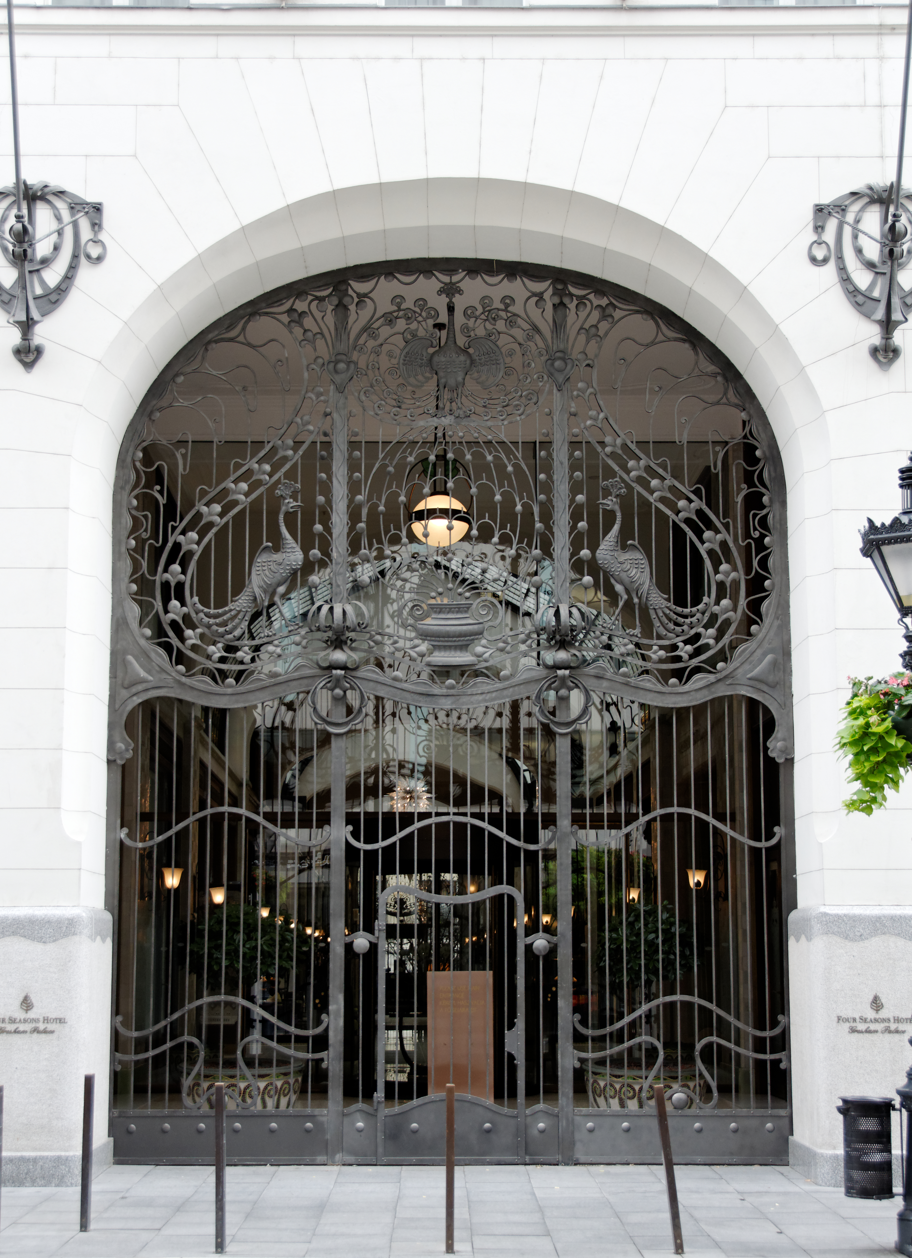 Gresham Palace, Budapest